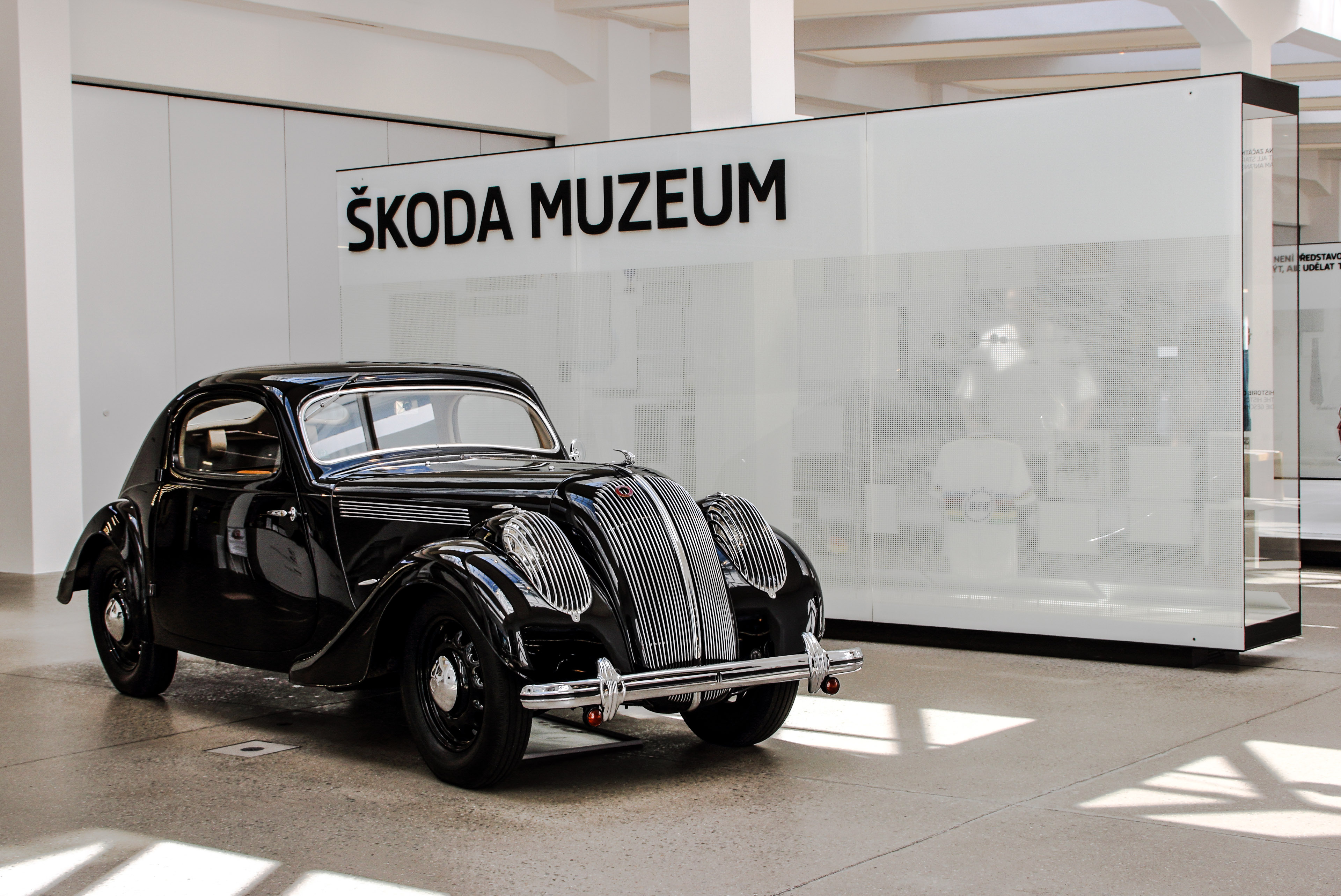 Škoda 418/421 Popular Sport – Monte Carlo, Škoda Muzeum